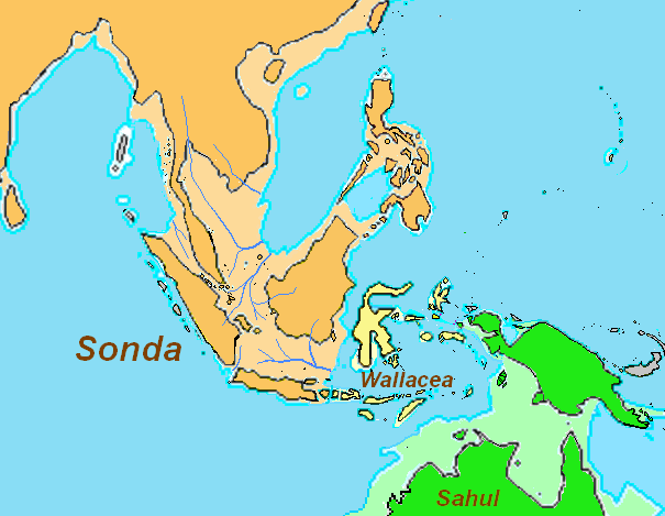 Sunda Shelf and rivers of Sundaland